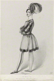 James Robertson Anderson by Richard James Lane rinted by Jérémie Graf, published by John Mitchell hand-coloured lithograph, published 1 December 1838 in National Portrait Gallery, London